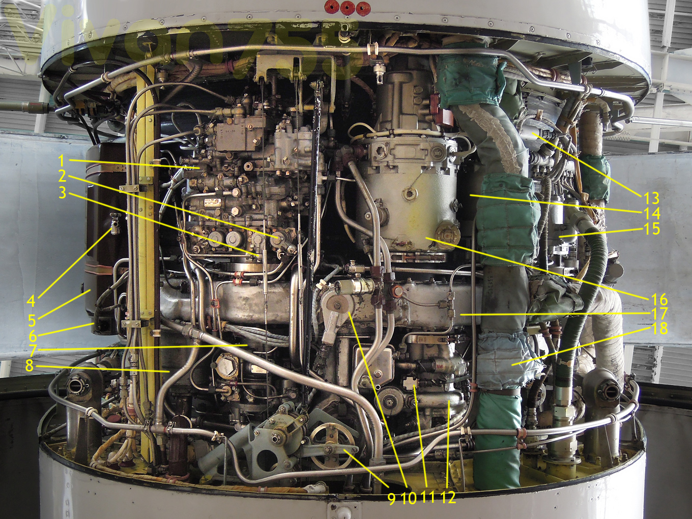 1 — fuel regulator, 2 — air press from compressor, 3 — air press from inlet, 4 — oil drain valve, 5 — oil tank, 6 — oil level sensor, 7 — fuel pump, 8 — air-from-oil separator, 9 — cable engine control, 10 — chip sensor, 11 — chip and overheat sensor, 12 — oil pump, 13 — air starter electromagnet, 14 — air starter, 15 — hydraulic pump, 16 — integrated drive generator GP21, 17 — gearbox, 18 — compressed air pipe.